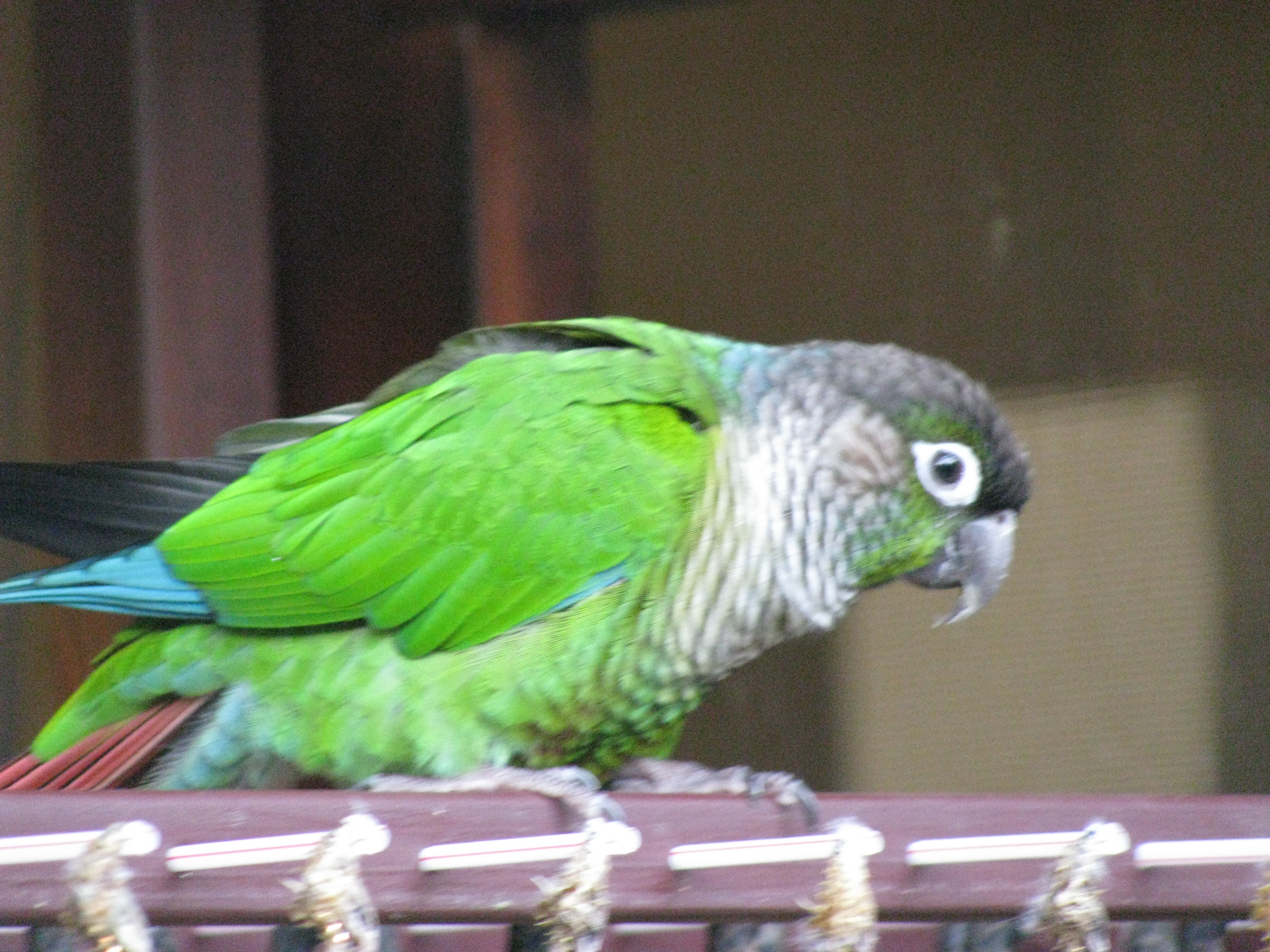 Green-cheeked Conure in capivity at Wings of Paradise Bird Park, Cambridge, Ontario, Canada.